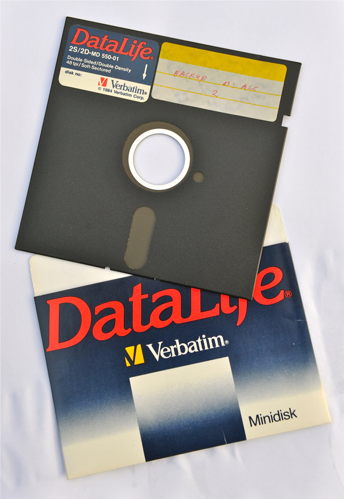 Een 5,25 inch diskette was een opslagmedium voor software dat gebruikt werd in een computer. Het medium was vanaf 1976 tot begin jaren 80 populair als middel voor datatransport tussen verschillende computers of als extern geheugen. De 5,25 inch floppy werd in 1976 door IBM op de markt gebracht. Twee jaar later was het de standaard. Tien jaar later gebruikte niemand ze meer. The first floppy disks that were widely used commercially were 5.25-inch disks. These floppy disks were quite flexible and required a 5.25-inch floppy drive. The disks could store up to 360 kilobytes (KB) of data, or about one third of a single megabyte. Later, high-density floppy disks held 1.2 megabytes (MB) of data. These floppy disks were widely used until about 1987. Bron